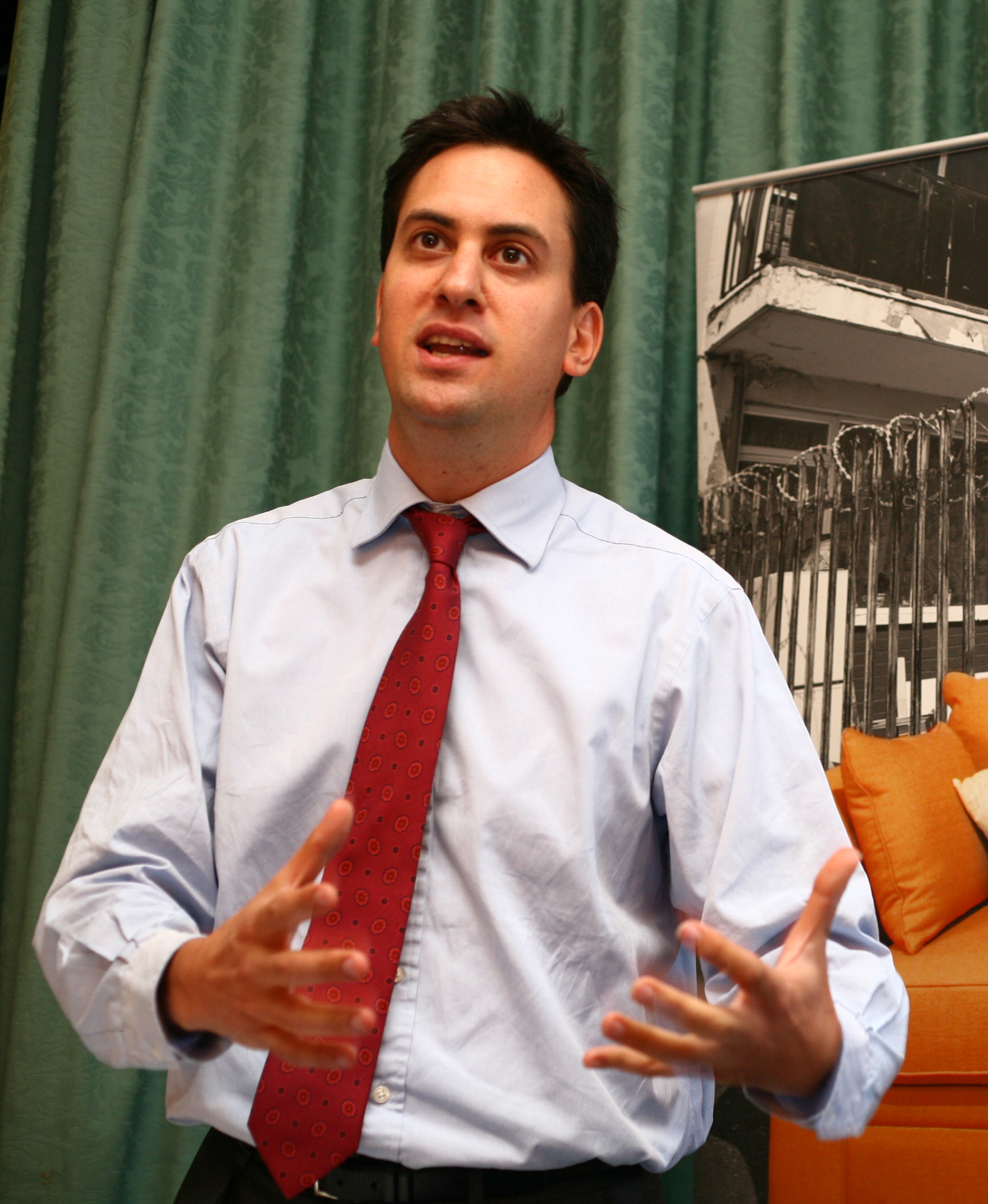 Ed Miliband MP speaking at the Labour Party conference.